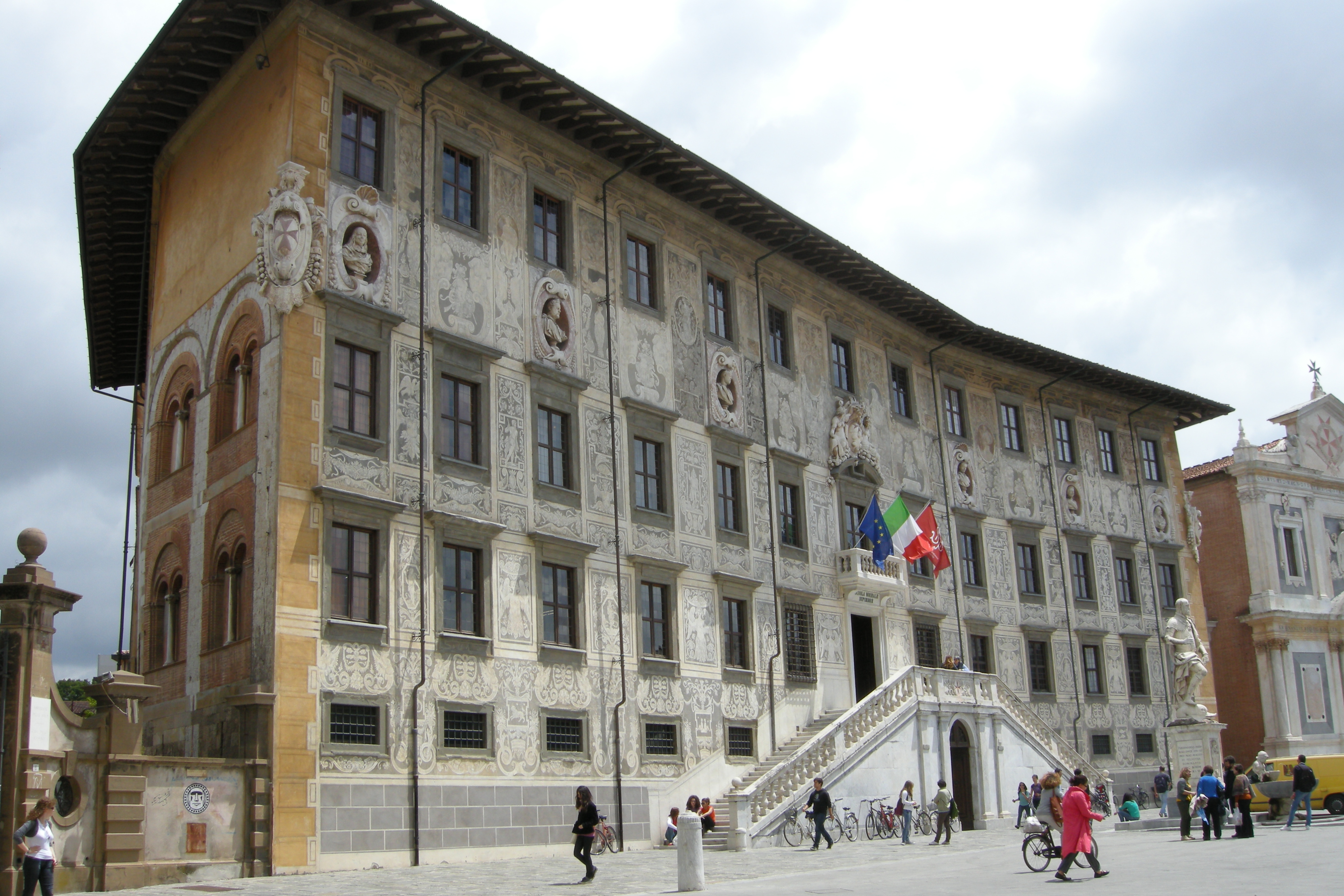 Scuola Normale of Pisa, Italy